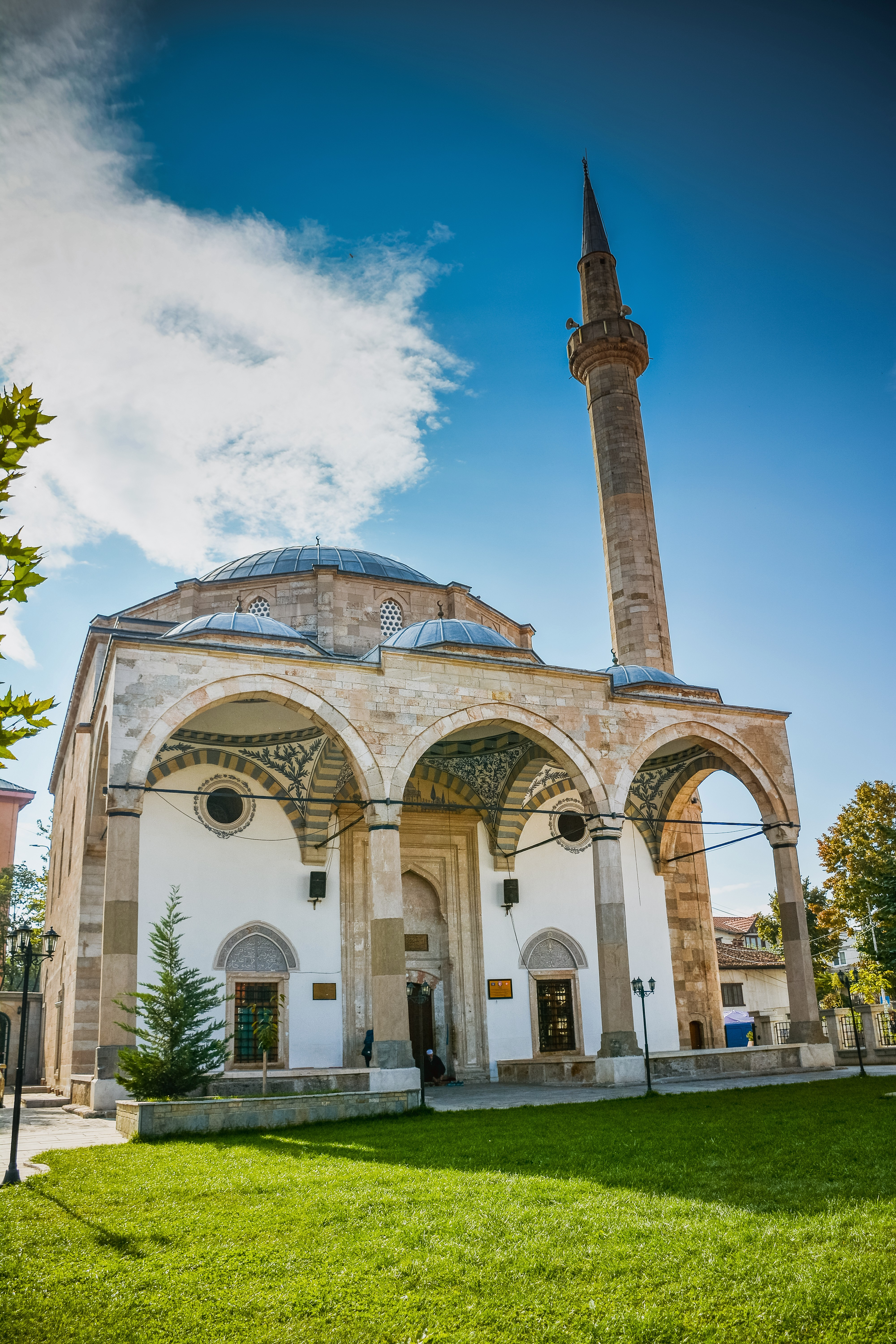 The King's MosqueShqip: Xhamia e Mbretit